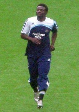 Nigerian footballer Obafemi Martins.